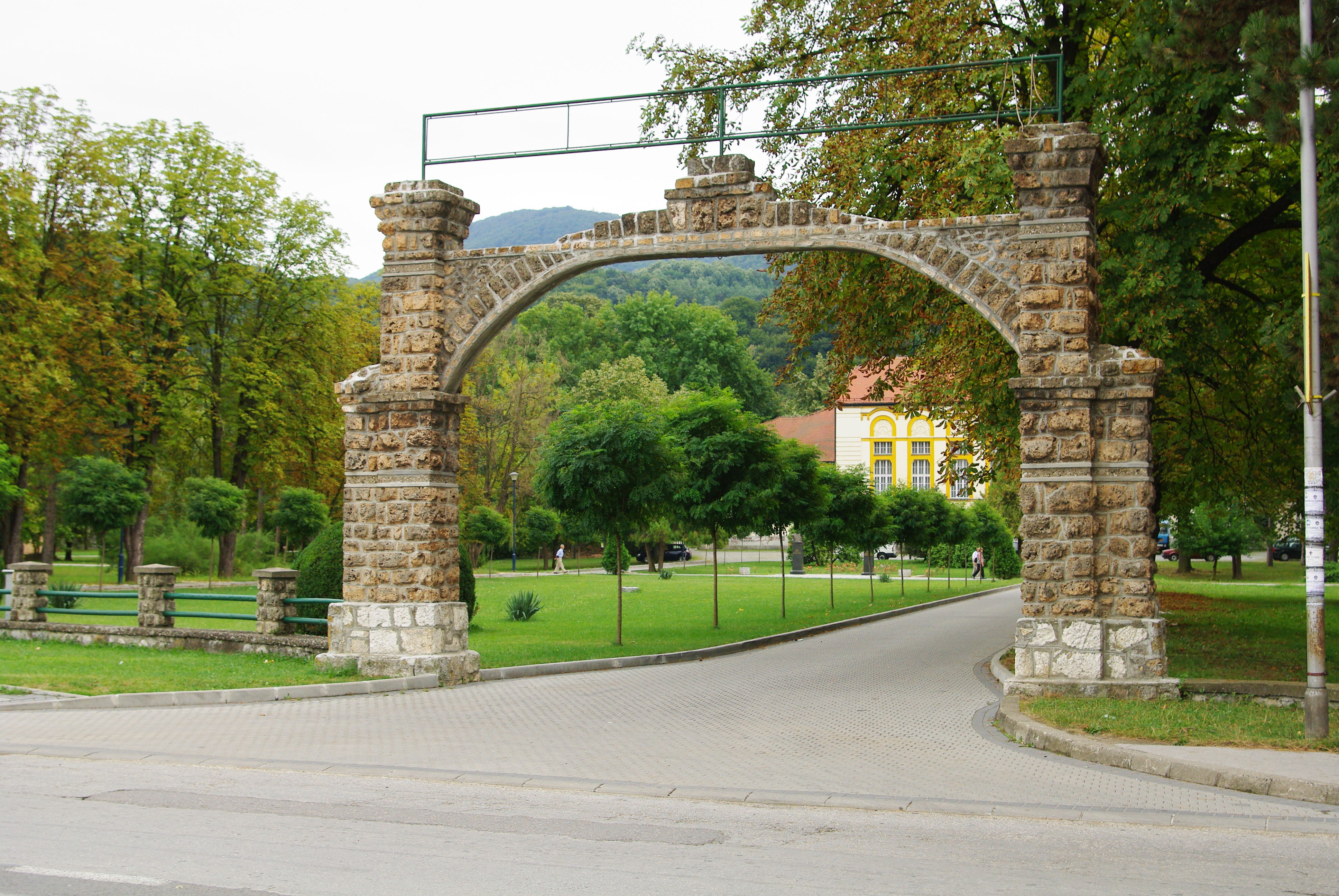 Entrance in Banja Koviljaca spa, Serbia